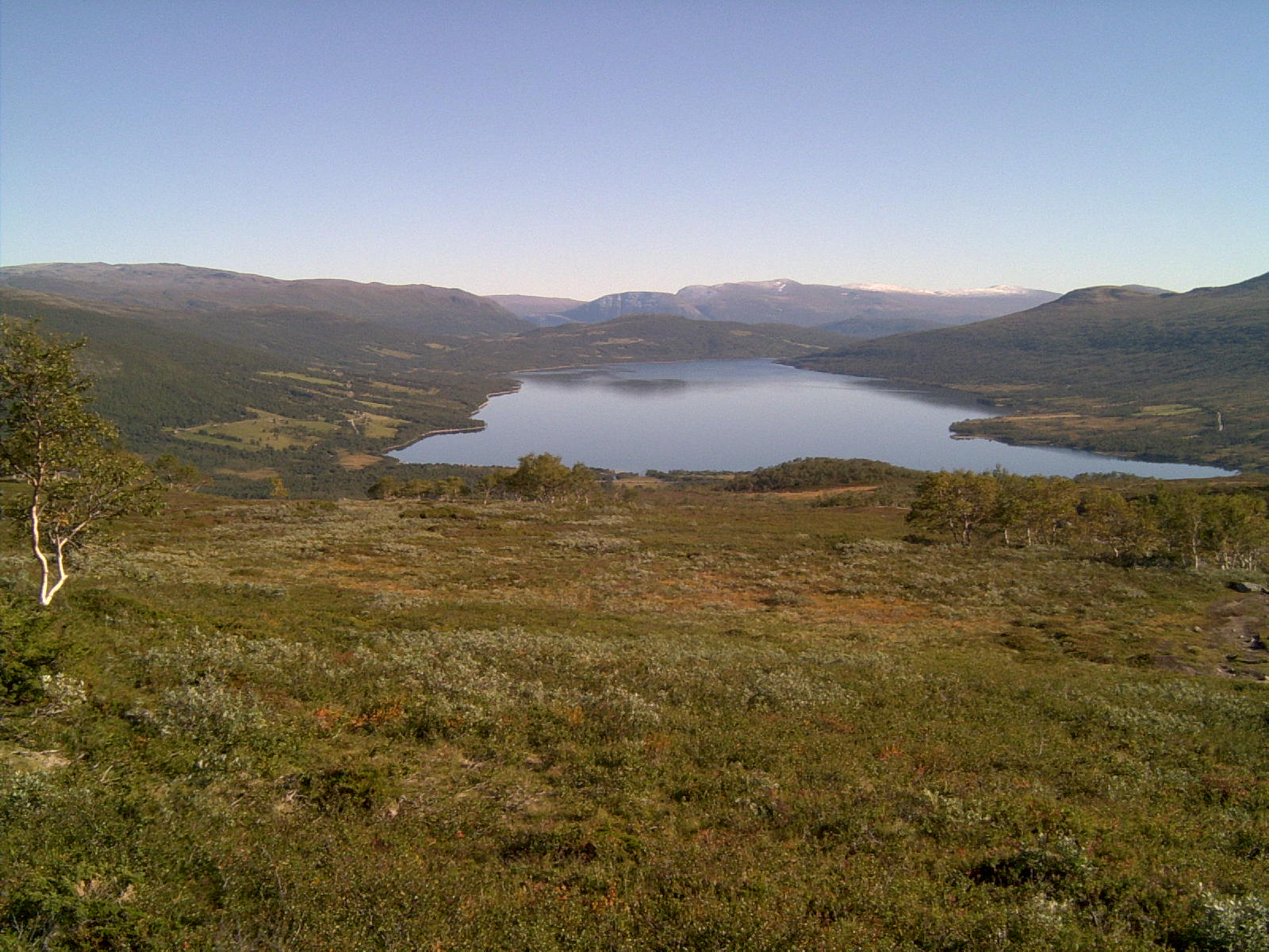 Gjevilvatnet, Norway seen from north. Note typo in file name Photo by ~~ 2005-09-10